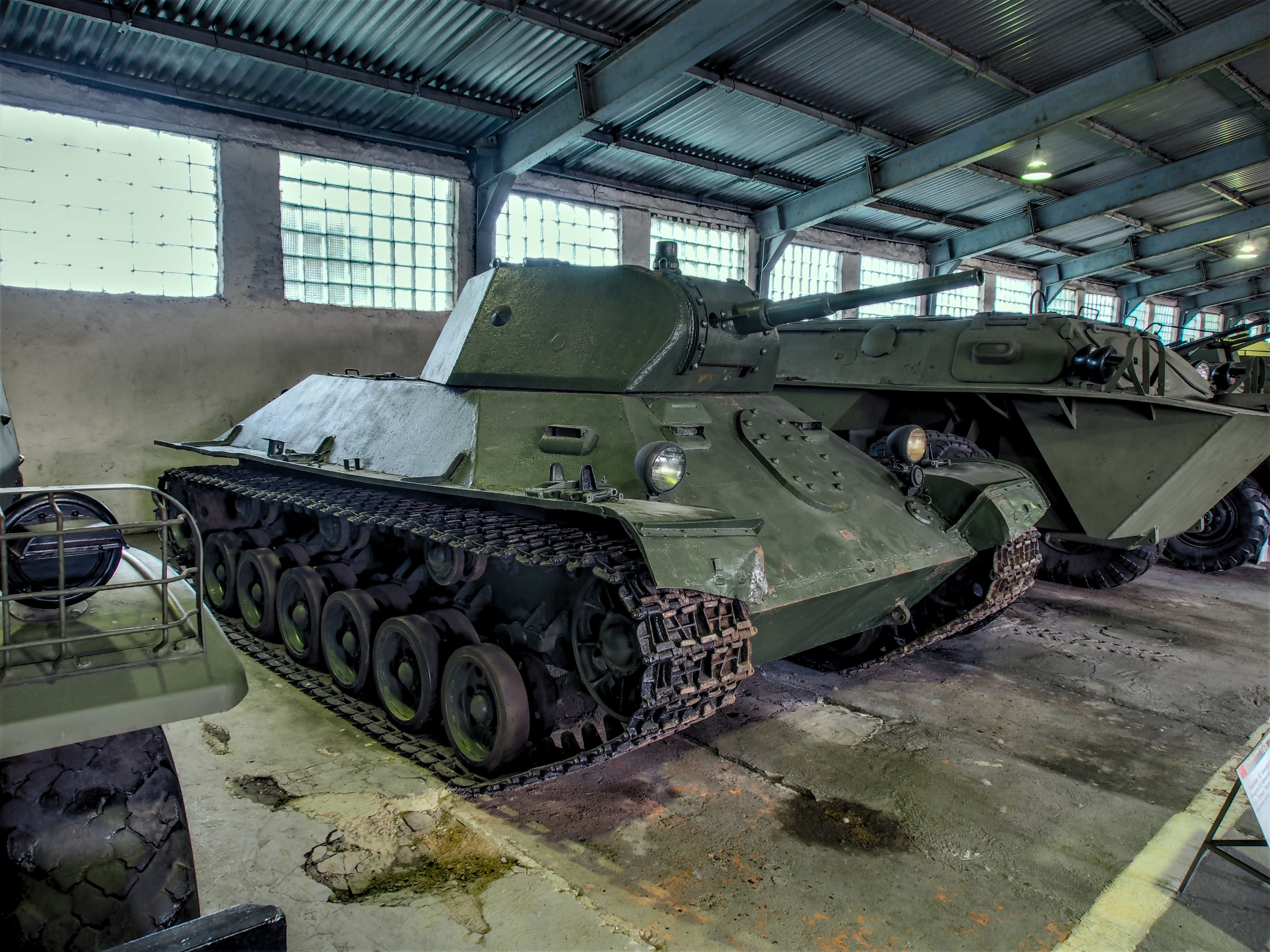 T-126 SP in the Kubinka Tank Museum.